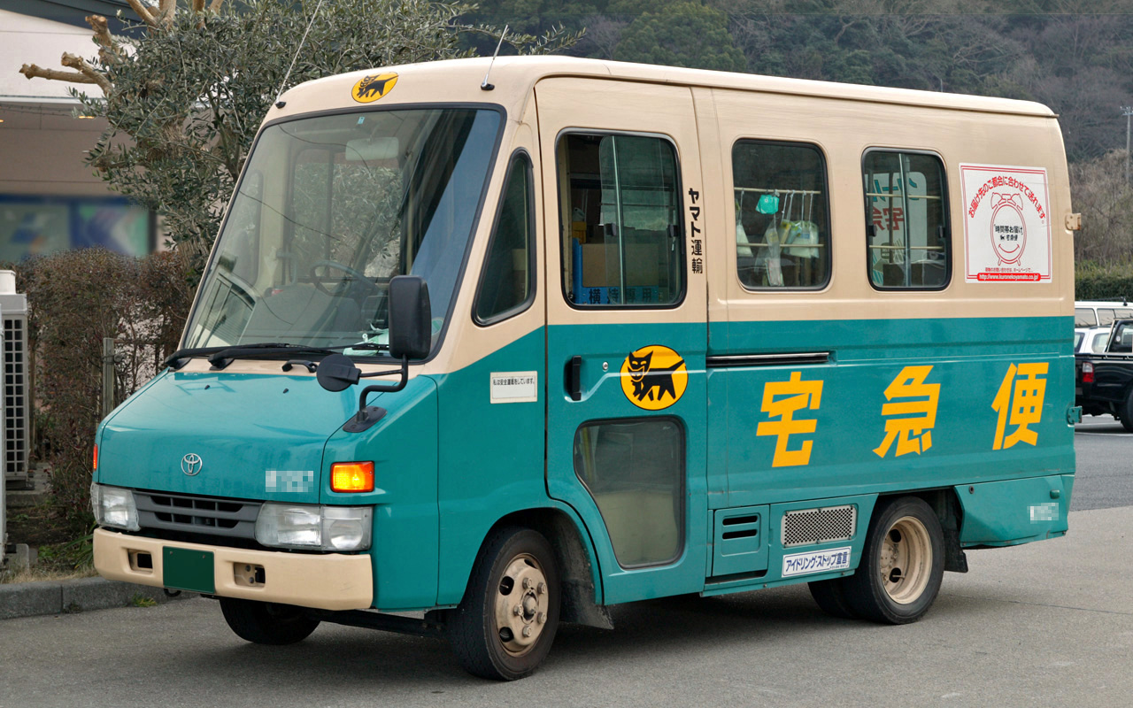 Yamato Transport Toyota Quick Delivery 200 ( XKU280K ).